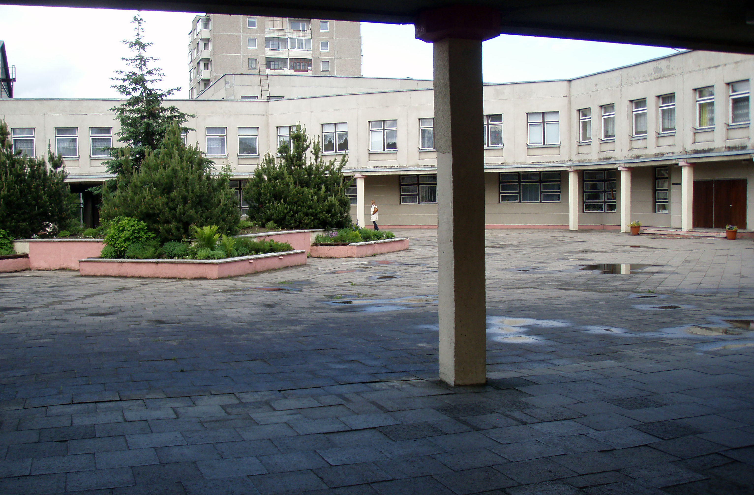 Vilnius Ateities middle school, Lithuania